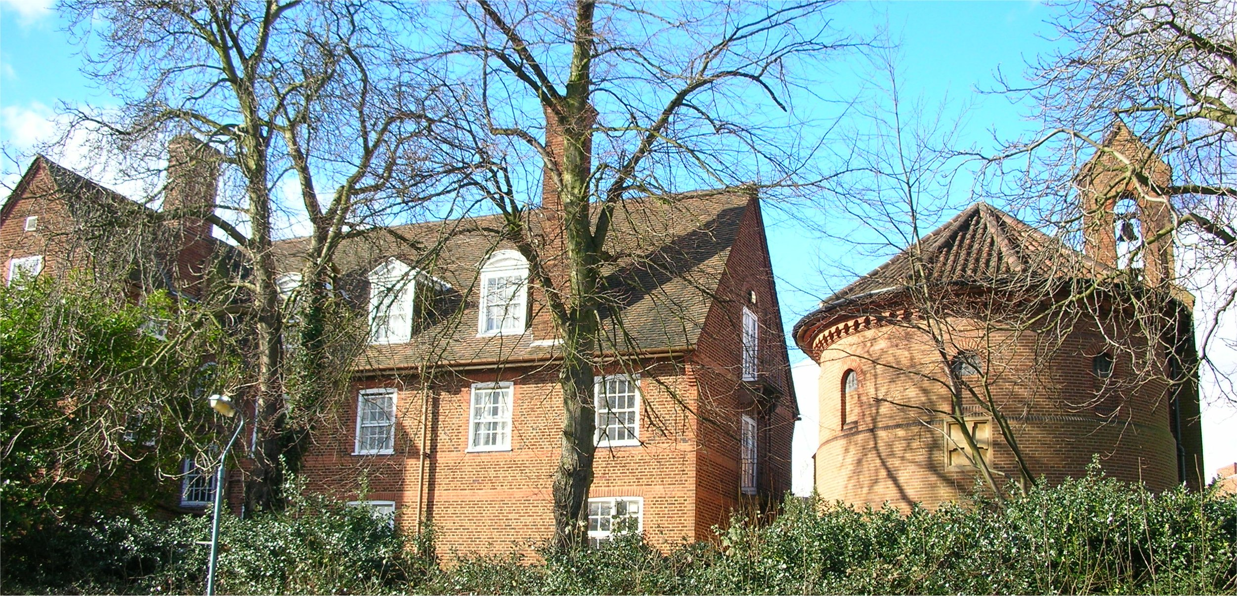 Queen's College, Edgbaston, Birmingham, England. A theological college. The residential block and lodge (1929-30), and chapel (1938-47) are by local architect Holland W. Hobbiss. Credits Photographed by me 21 February 2007. Oosoom